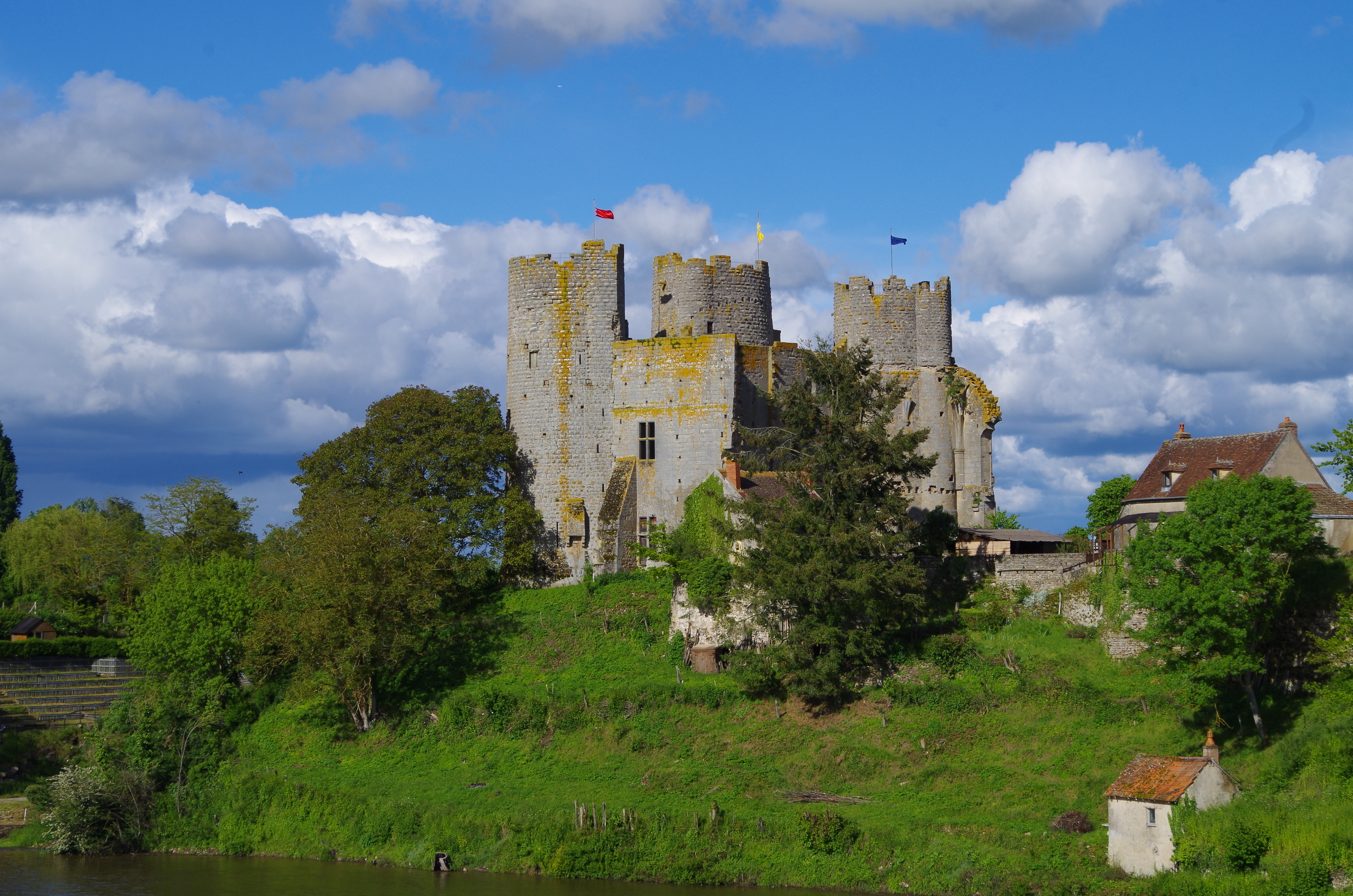 Bourbon L'Archambault Fortress